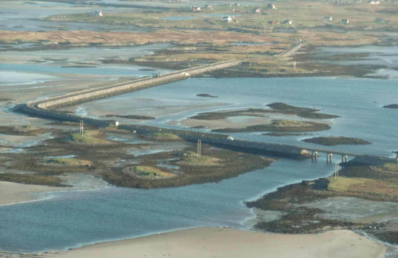 Causeway from Benbecula to North Uist across the Oitir Mhor, Outer Hebrides, Scotland